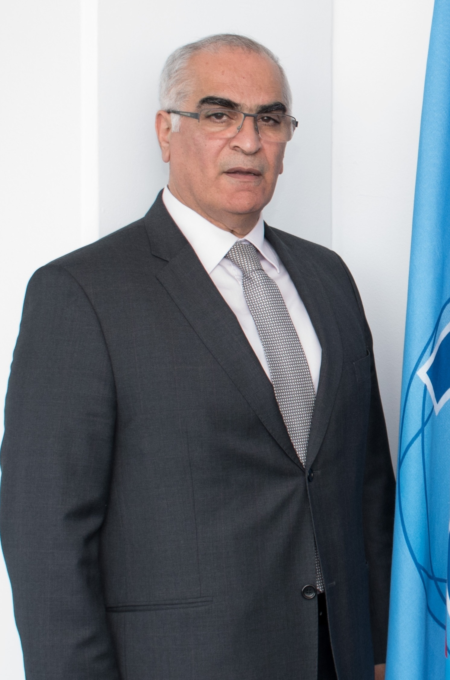 H.E. Mr Ibrahim Khraishi, Ambassador of the State of Palestine to the U.N. and H.E. Dr. Allam Mousa, Minister, Ministry of Telecommunications and Information Technology of the State of Palestine meet with Malcolm Johnson - Geneva, 2 May 2016